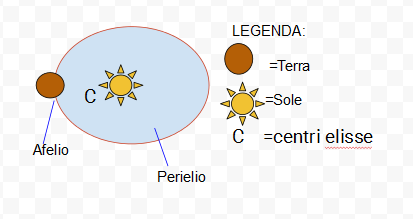 rappresentation of the Kepler 's first law